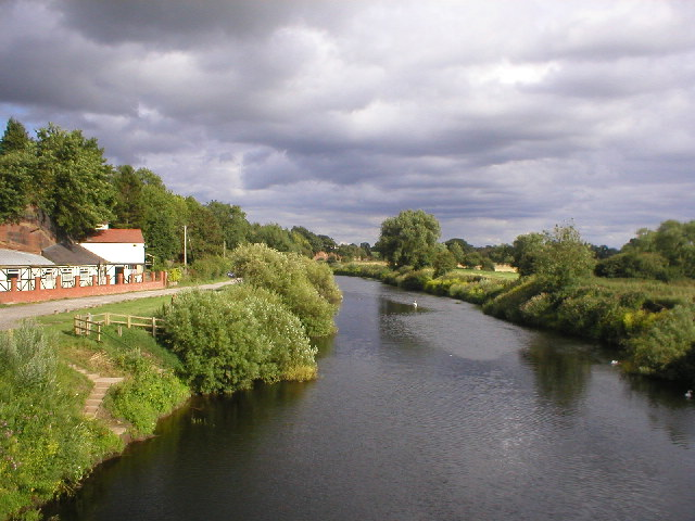 River Dee between Holt and Farndon.